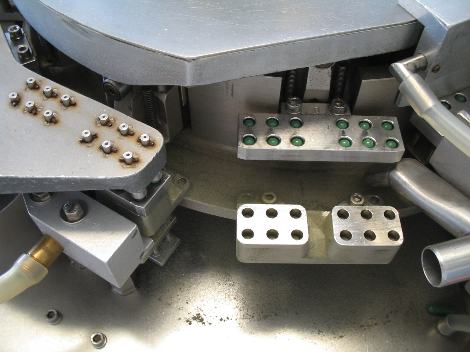 Caps filling machine